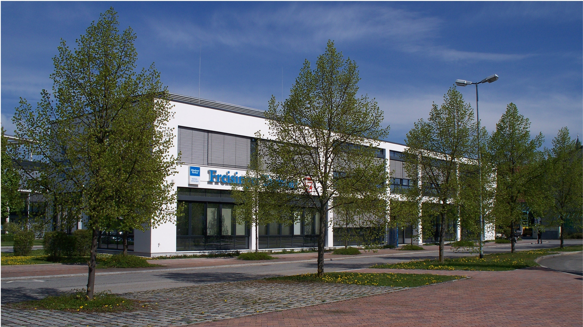 Building of the newspaper "Freisinger Tagblatt" in Freising, Germany.